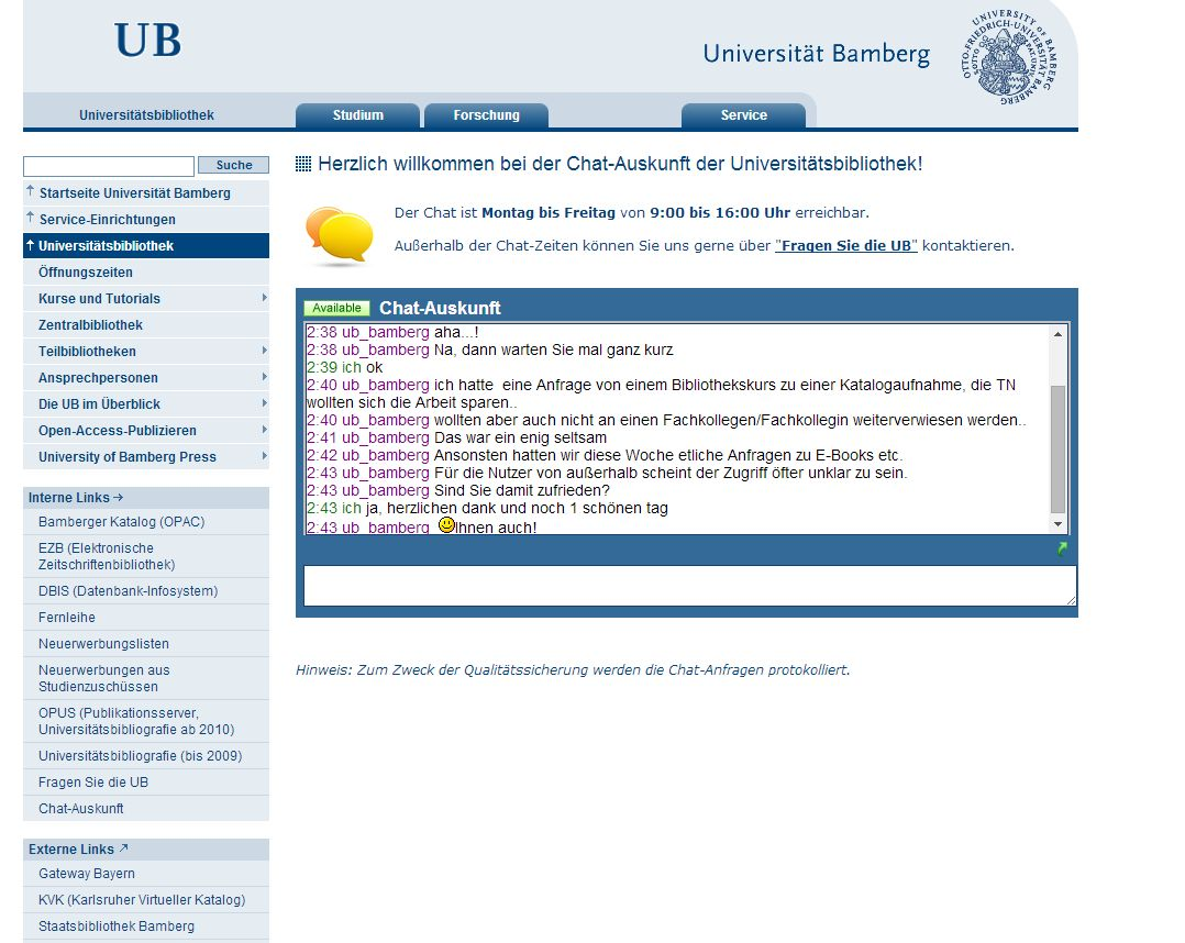 Chatreference der UB Bamberg